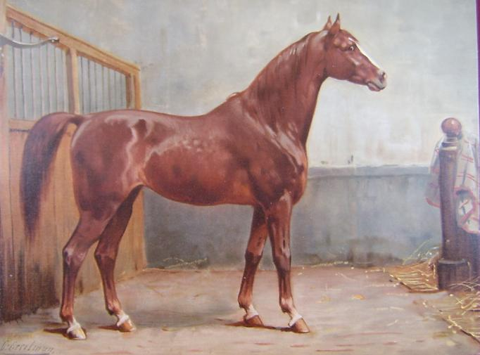 Reproduction of a print by Otto Eerelman, a Dutch painter who published a work on horse breeds (Paardenrassen Kunstalbum) in 1898. The horse is identified as a Hanoverian, a more refined breed of all-purpose horse from Germany. The coat color is chestnut. The left-hand side of the background features the front of a box stall, while the right-hand side features a loose or tie stall. The cloth object is a horse blanket. "Hanoverian" is Anglicized from "Hannoveraner" (German) or "Hannover paard" (Dutch).